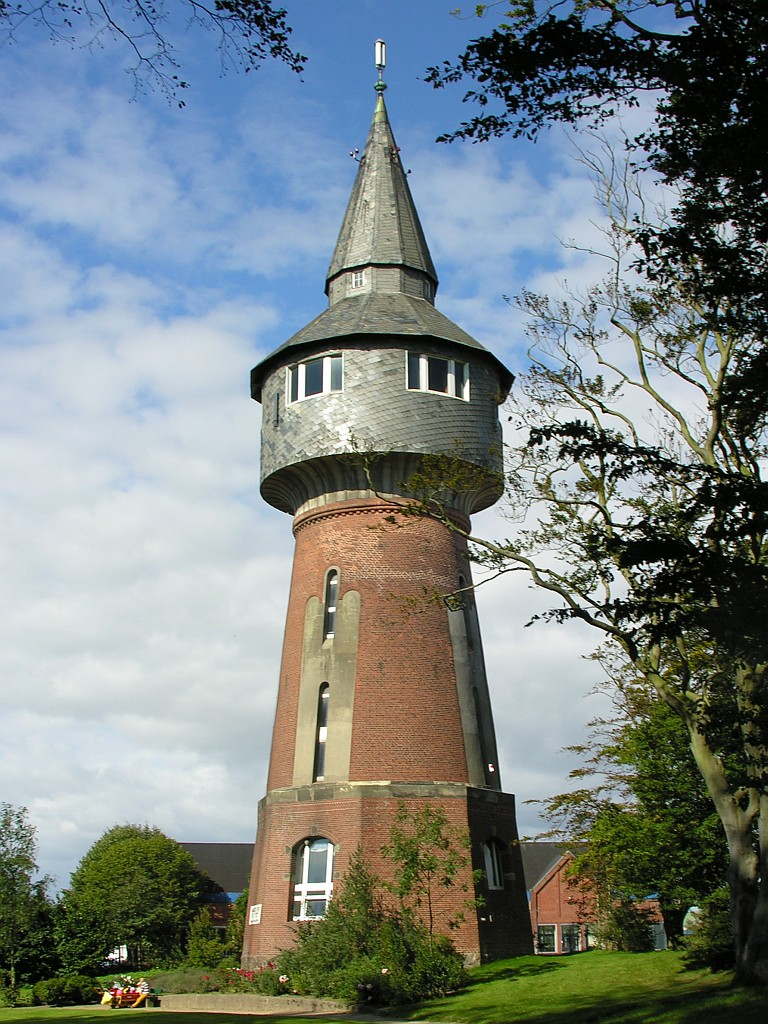 Husum, Germany: Water tower